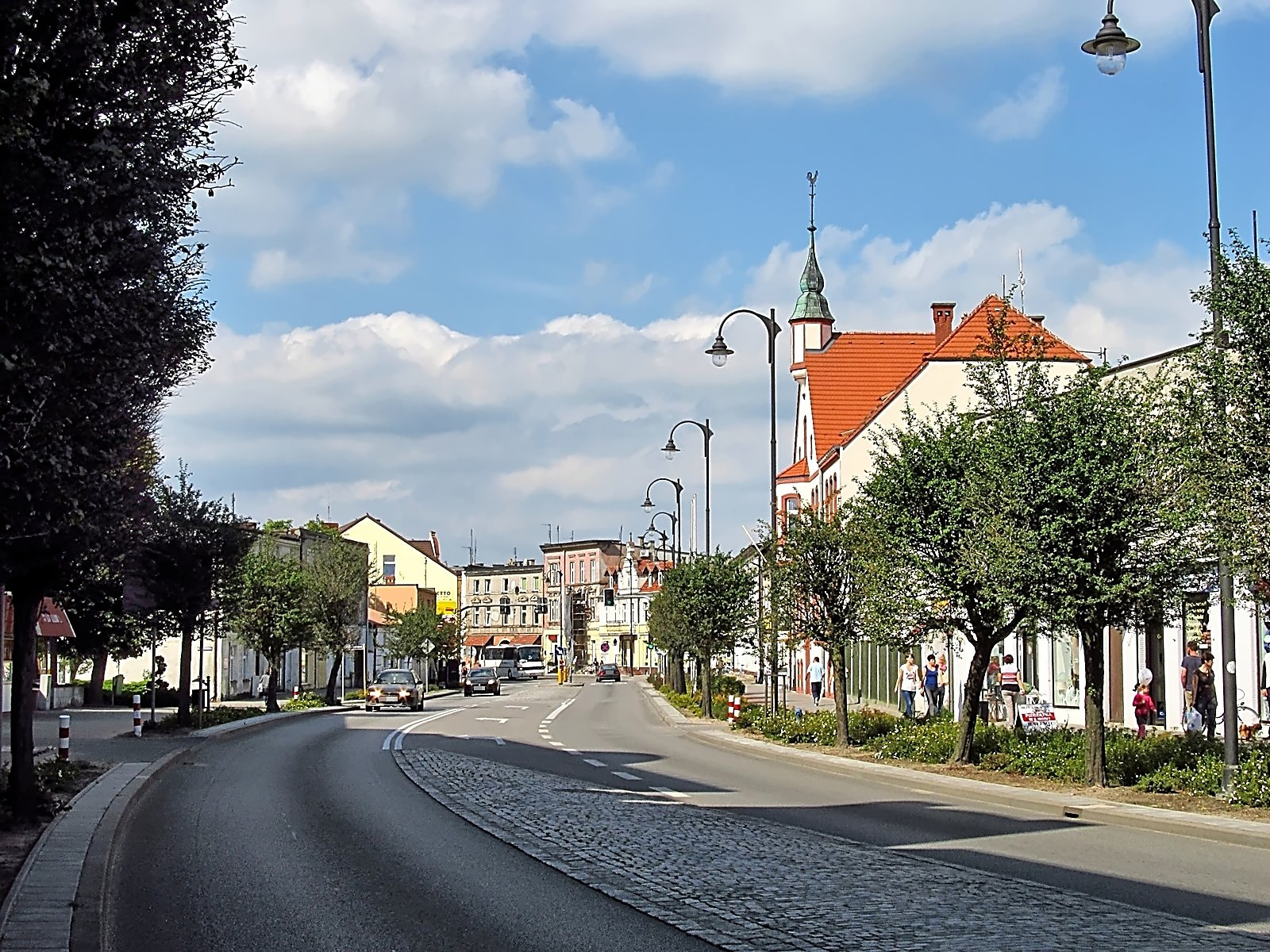 Kosciuszko Street in Czersk, Pomeranian Voivodeship